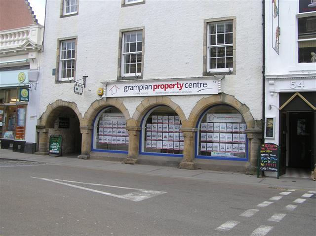 Grampian Property Centre, Elgin This historic building is located at High Street